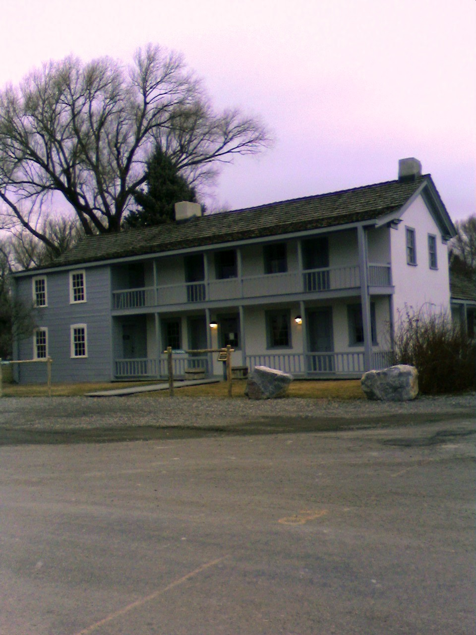 Camp Floyd Stagecoach Inn at Fairfield, Utah by David Jolley